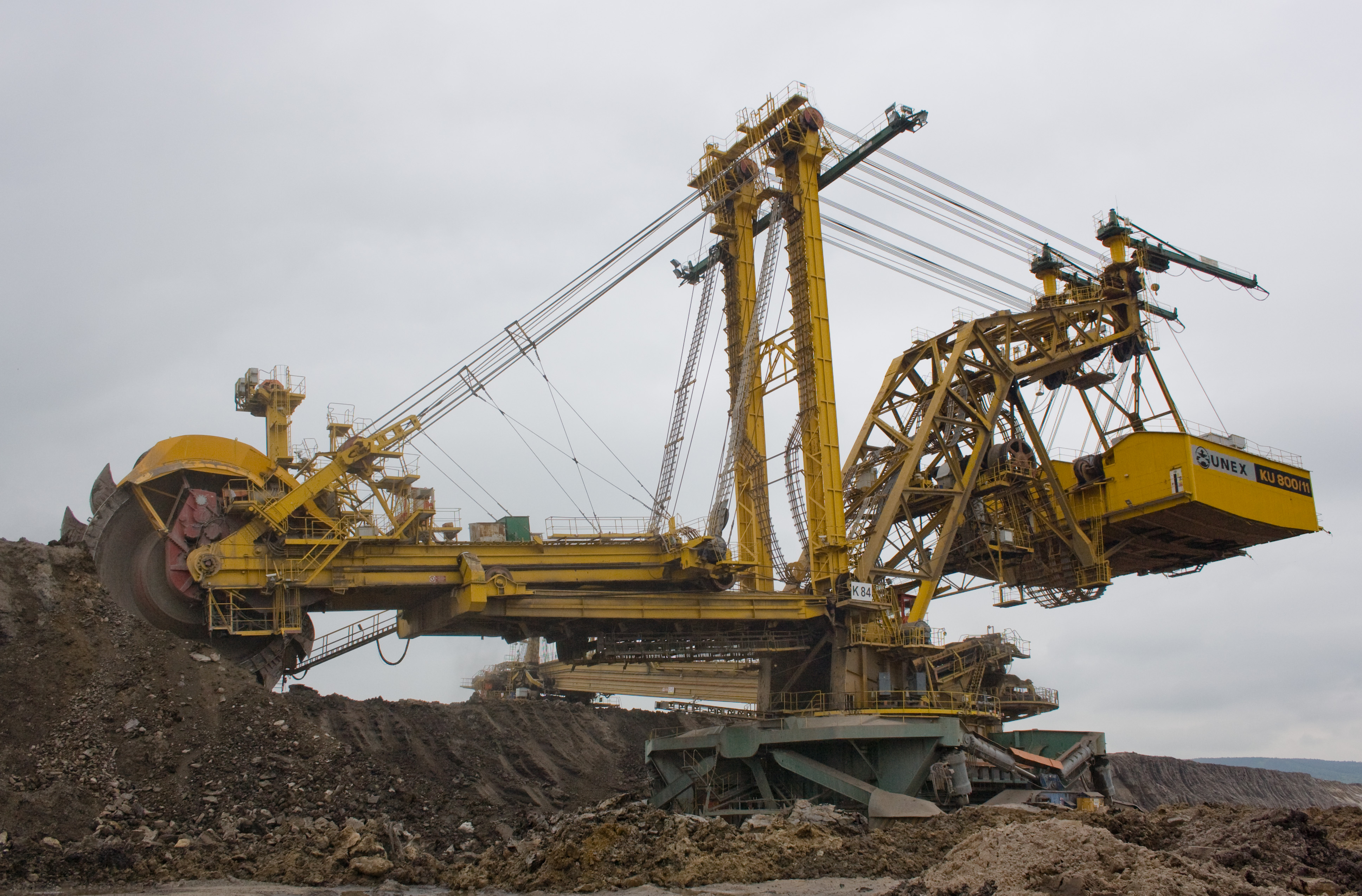 KU 800, Vršany quarry, North Bohemian Basin, Czech Republic Tato série fotografií vznikla za laskavého svolení společnosti CzechCoal